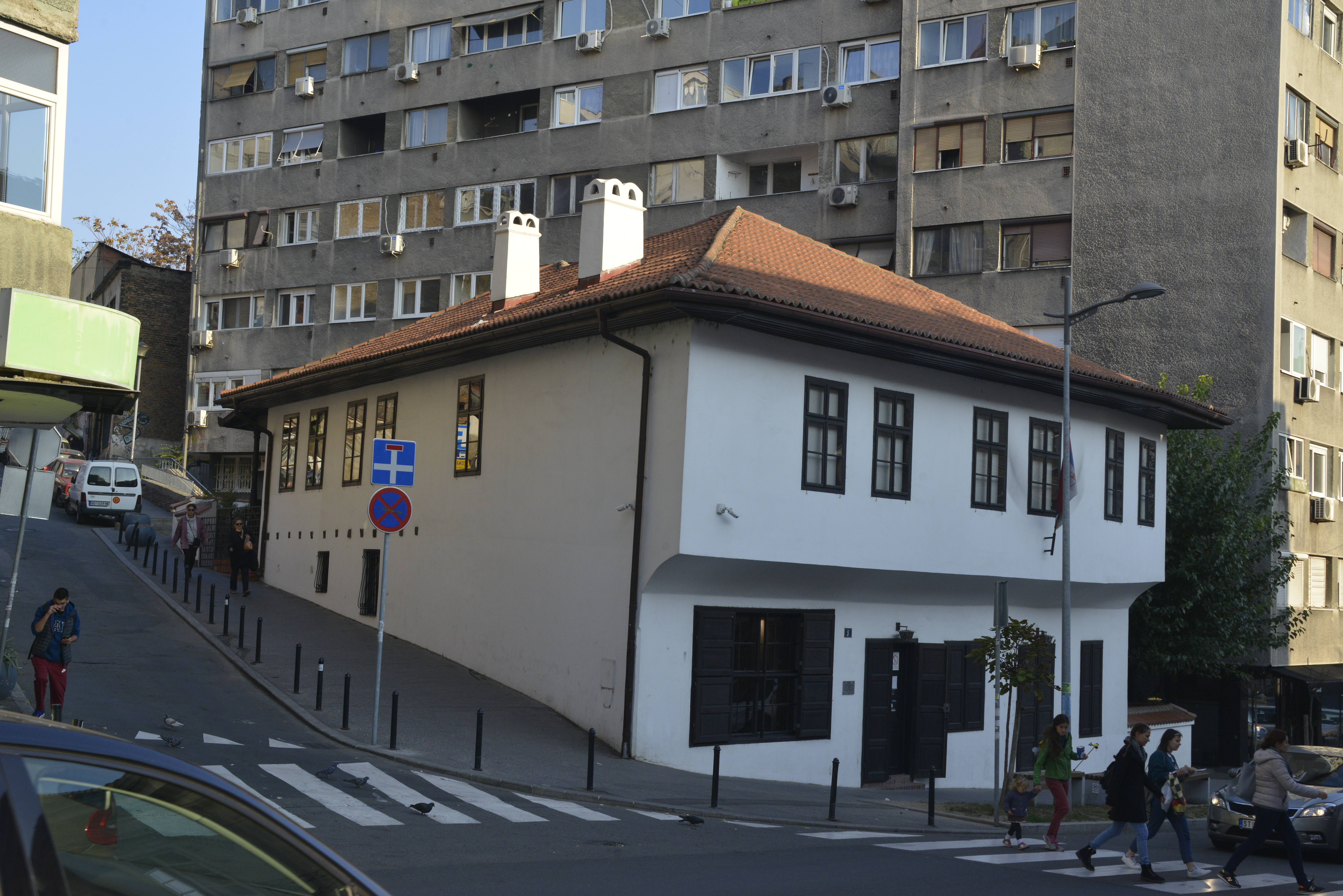 Manakova house in Belgrade